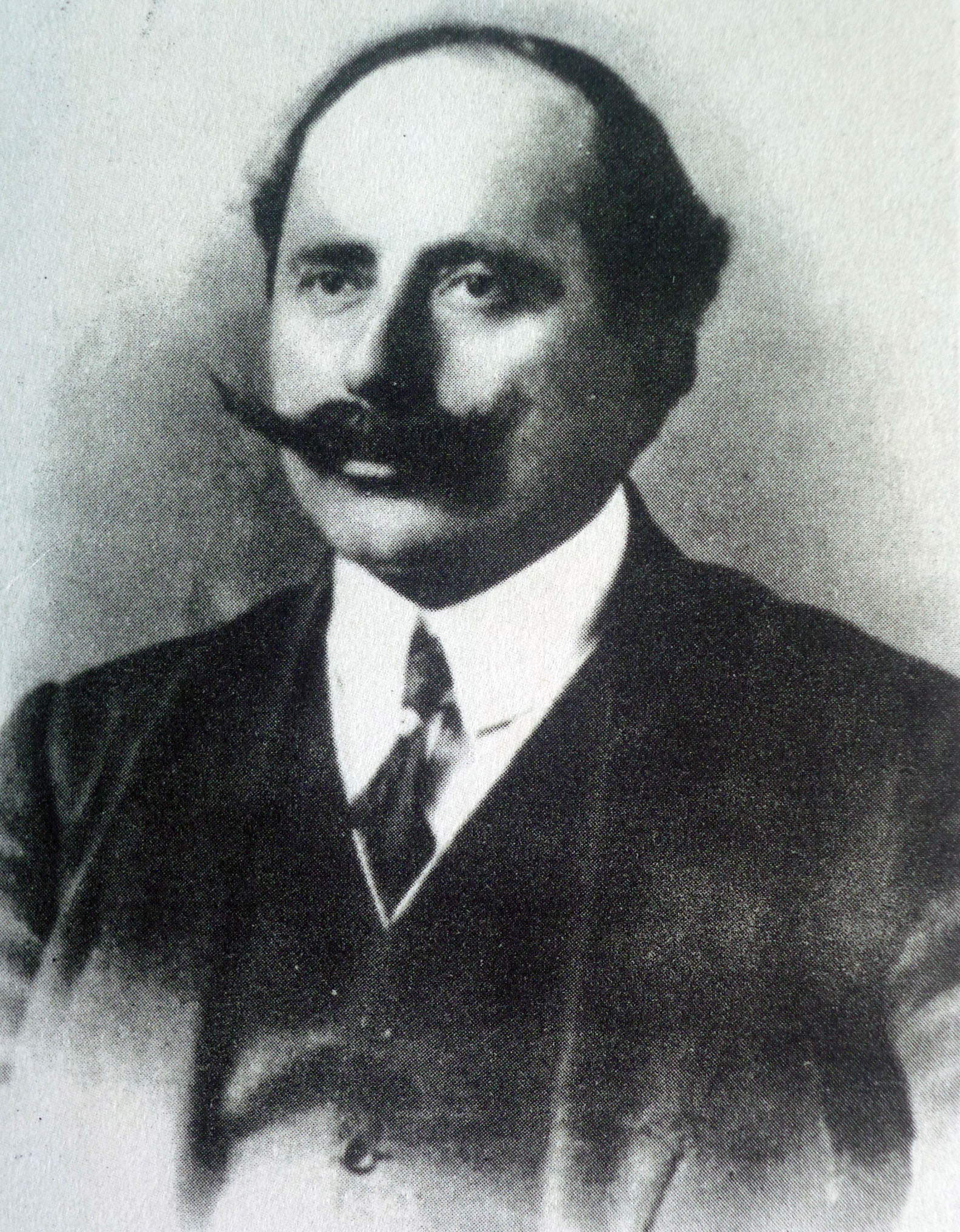 Themistokli Germenji